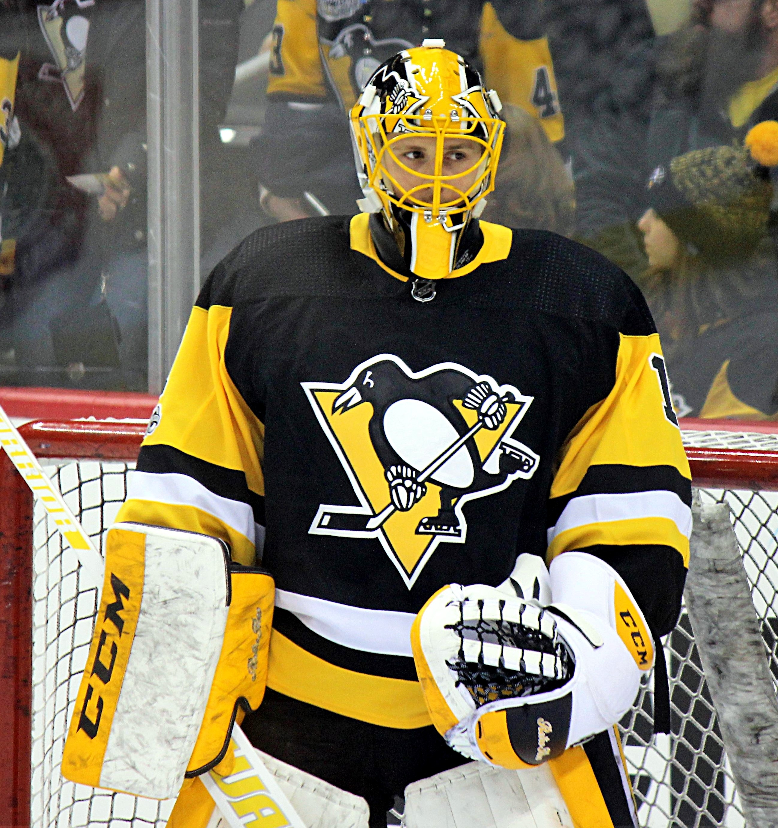 Pittsburgh Penguins goalie Casey DeSmith during a game against the Toronto Maple Leafs, December 9, 2017, at PPG Paints Arena in Pittsburgh, PA.